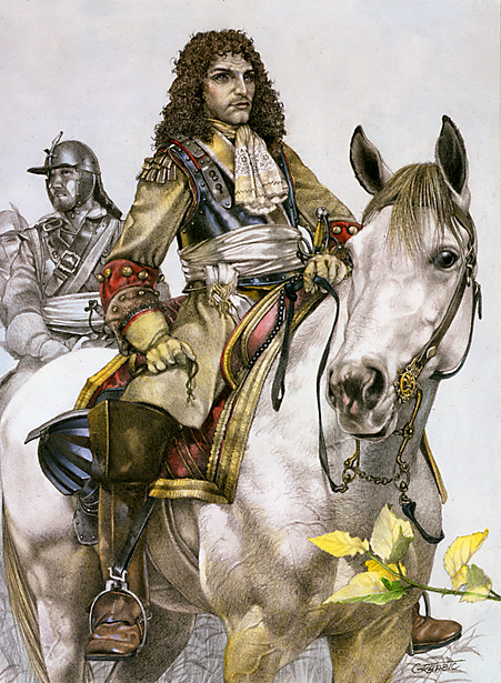 Equestrian portrait of Count Fran Đivo Gundulić or Francesco Giovanni Gondola; (born 1633, Dubrovnik - died 1700, Vienna), a member of an old noble family from Dubrovnik (then Republic of Ragusa), the House of Gundulić.